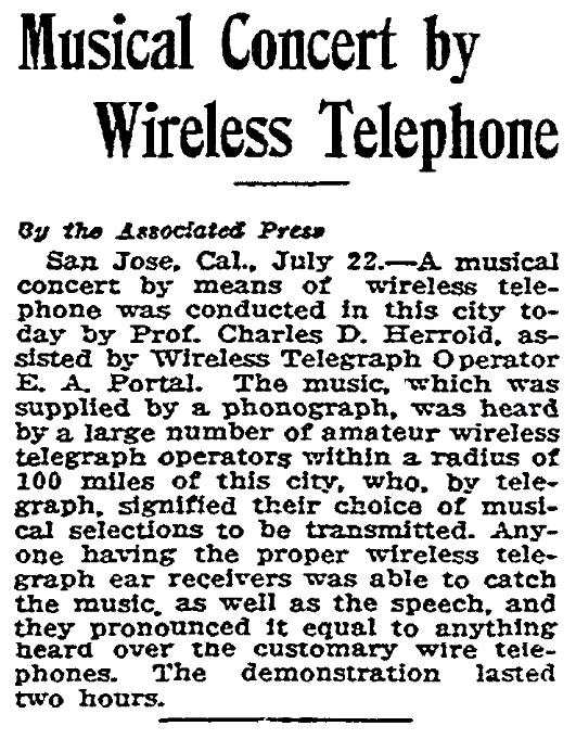 Newspaper article, "Musical Concert by Wireless Telephone", from page 19 of the July 23, 1912 San Diego Union